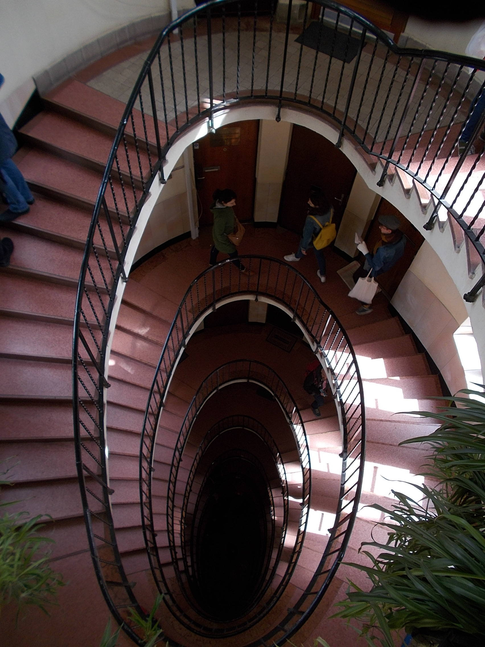 Lenz House planned by Károly Möller, detail. Built in 1938. - 2 Belgrád rakpart, Inner City neighbourhood, Belváros-Lipótváros district, Budapest, Hungary.